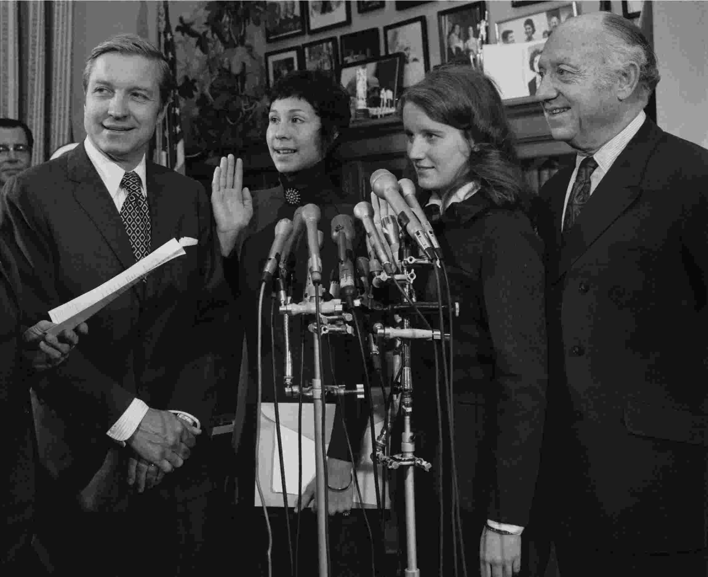 Swearing-in of the first female Senate pages with their Senators, 1971. Left to right: Senator Charles Percy, Ellen McConnell Blakeman, Paulette Desell-Lund, Senator Jacob Javits.